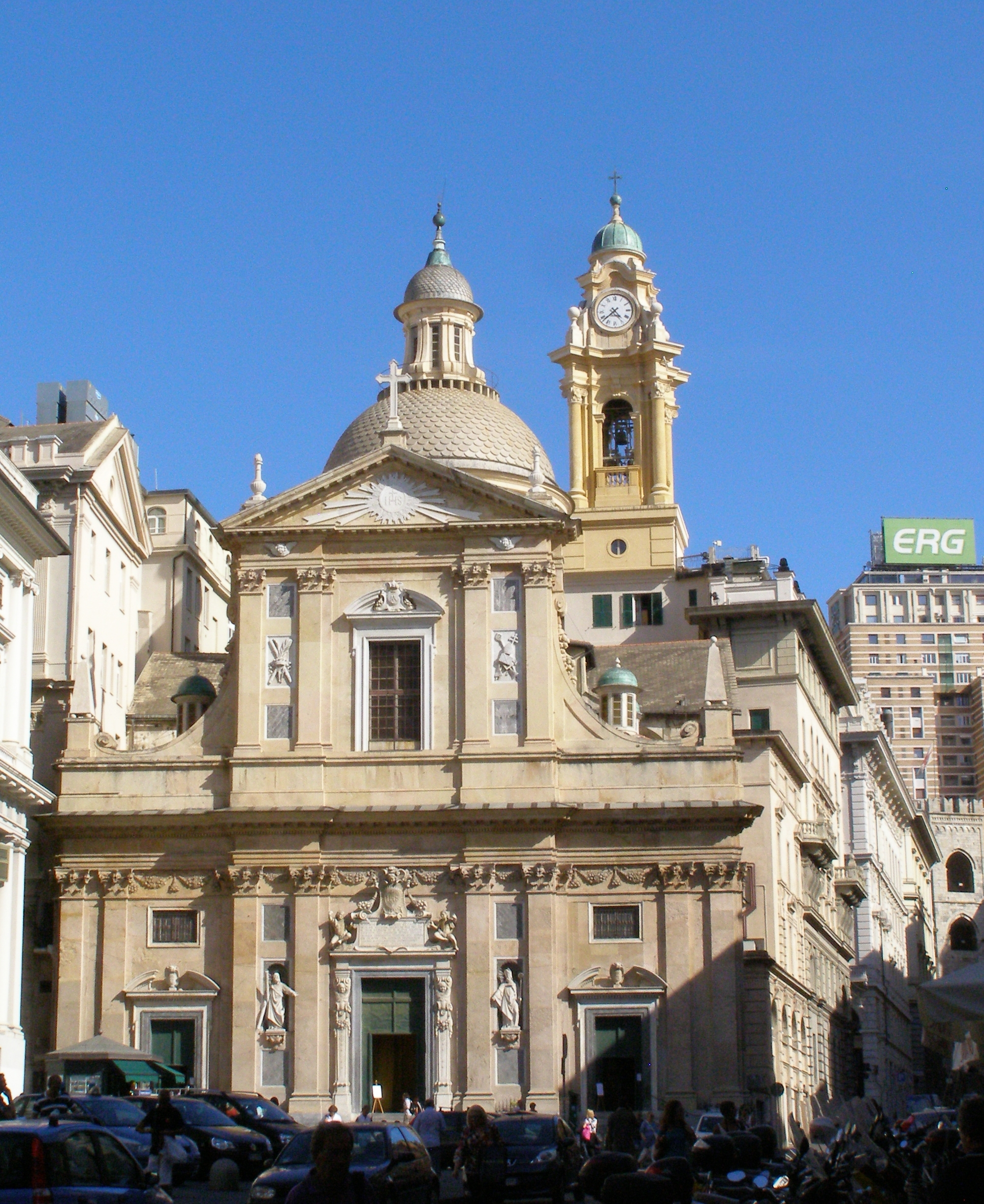 Genoa - church of Sts. Ambrose and Andrew